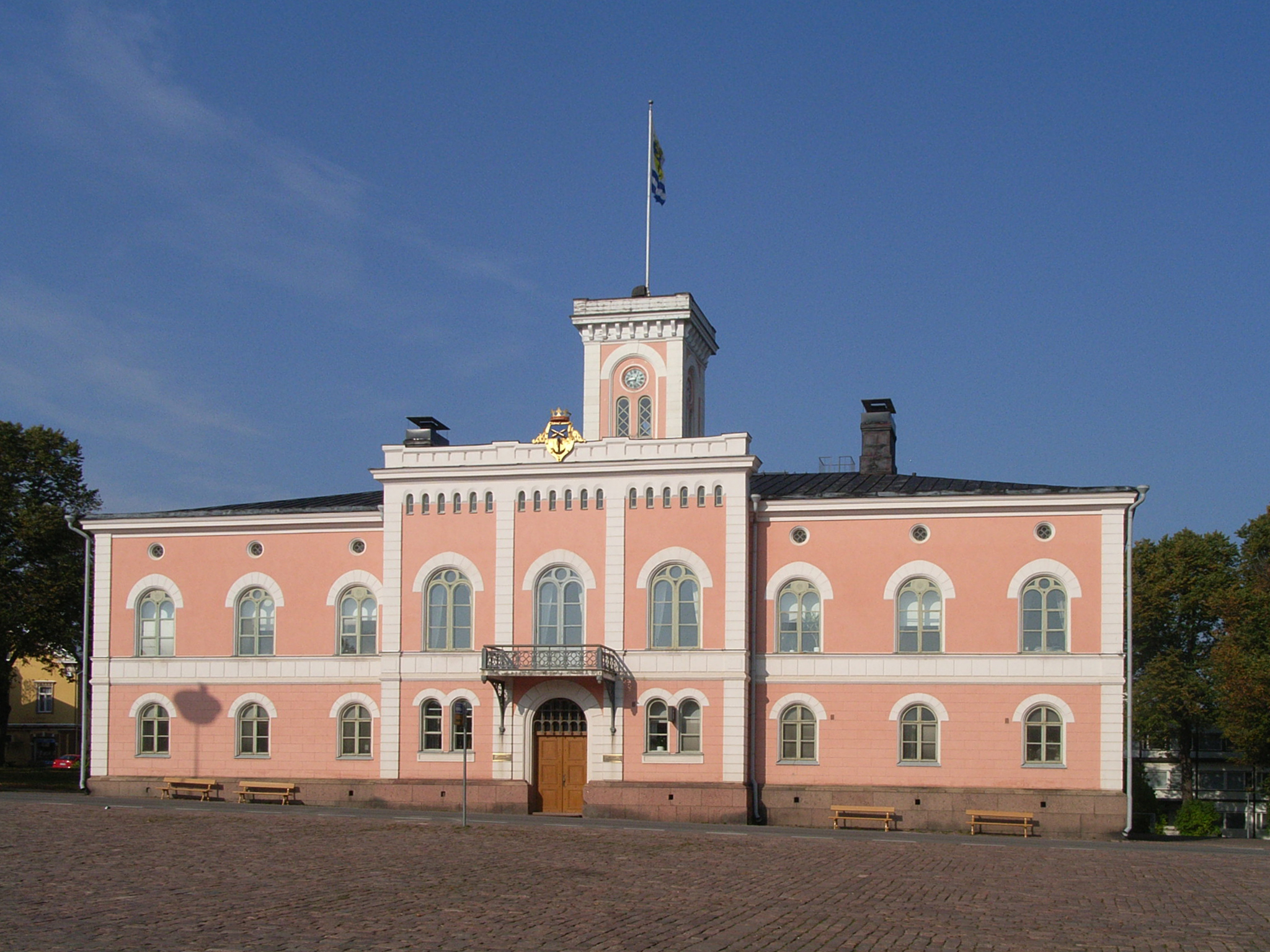 Loviisa, town hall (1856)